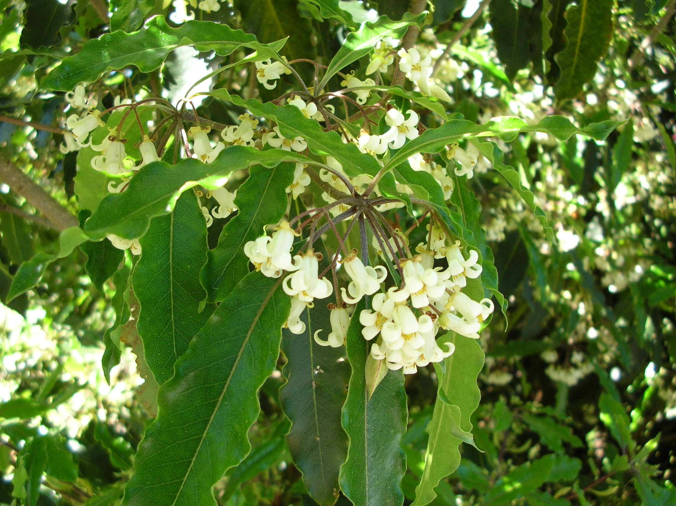 Pittosporum undulatum (flowers). Location: Maui, Kula